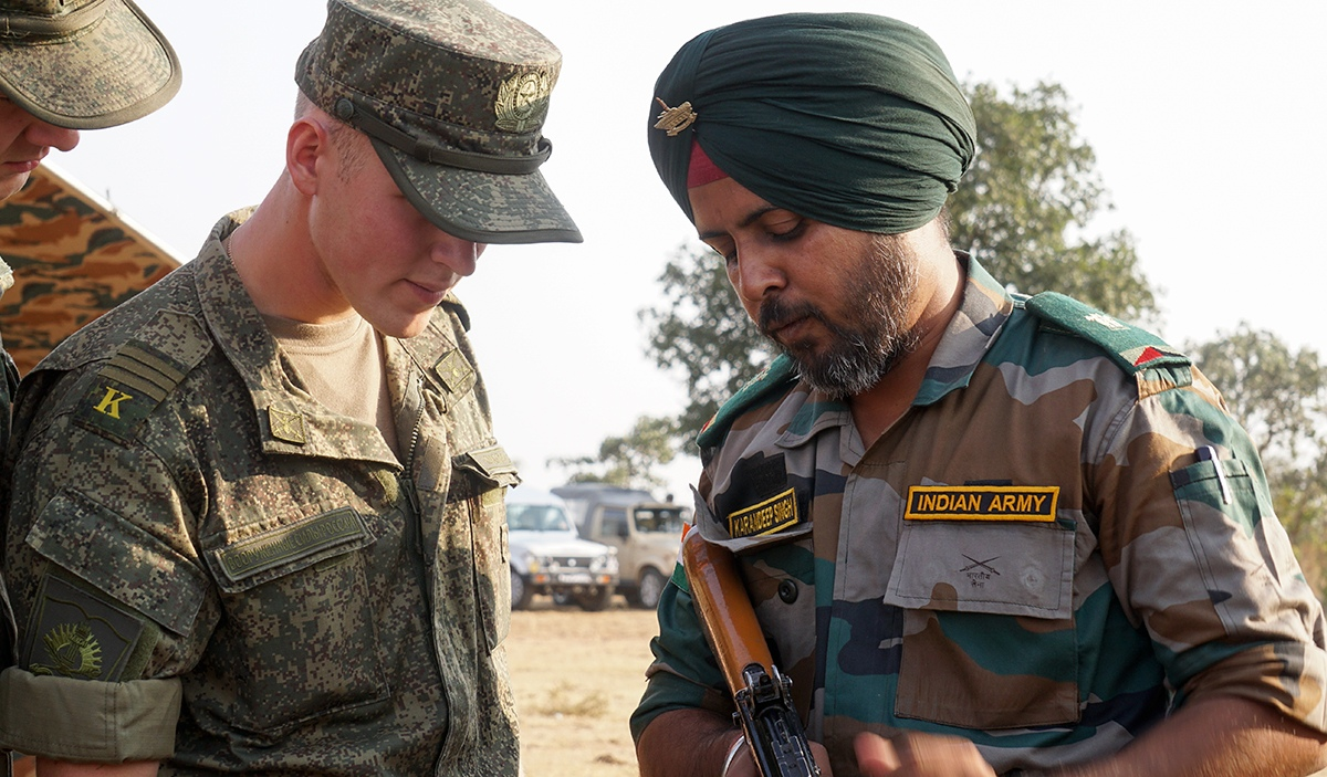 Indra 2019 military exercise.